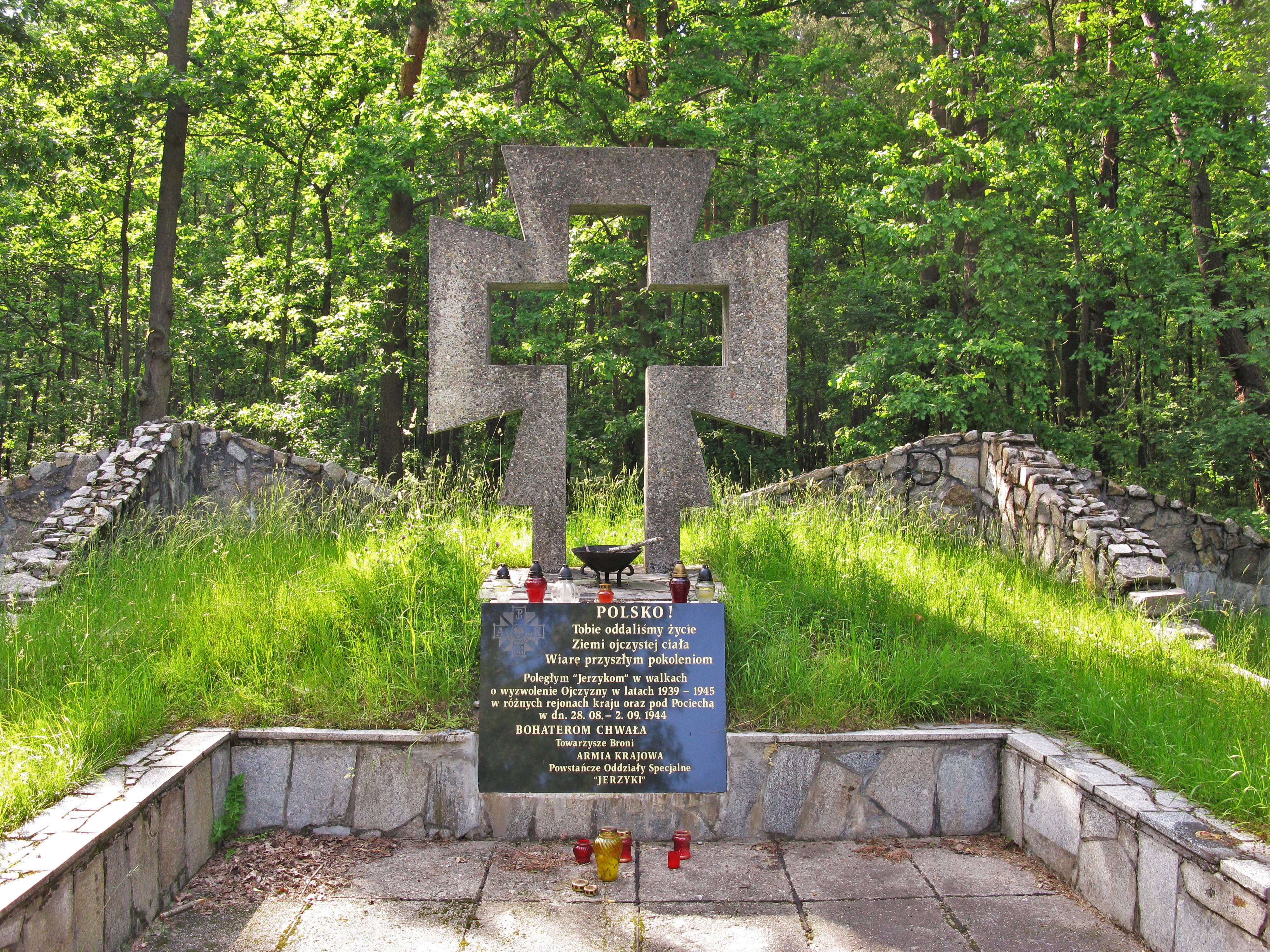 Cross commemorating Polish insurgent forces "Jerzyki" in Kampinos Forest